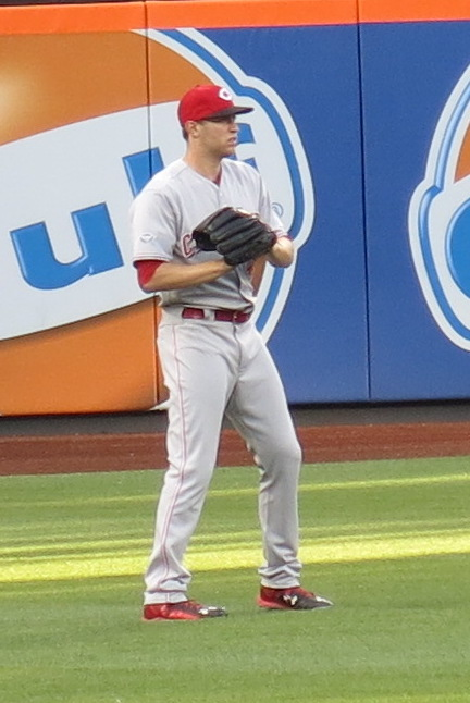 Jon Moscot with the Cincinnati Reds, April 27, 2016.